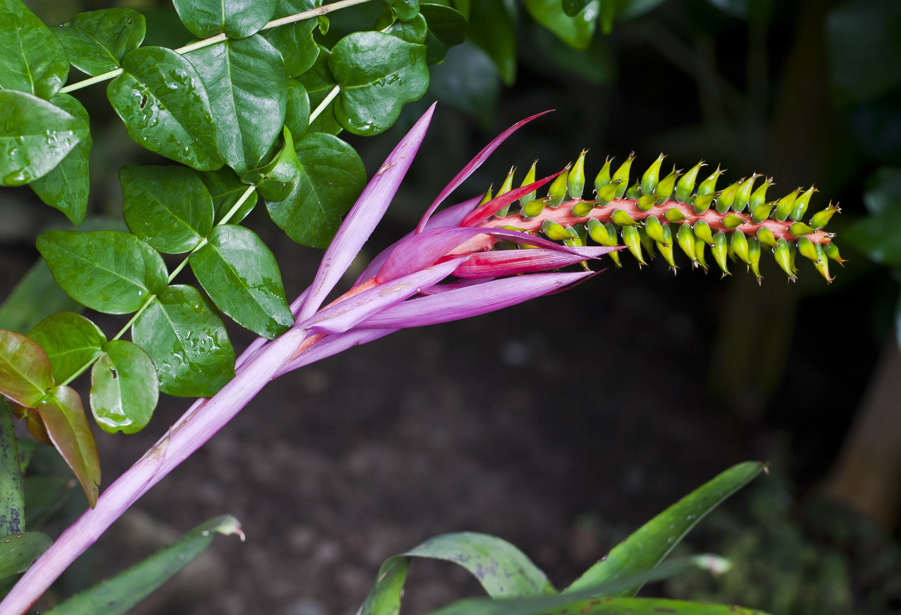 Aechmea nudicaulis, Tallinn Botanic Garden, Estonia